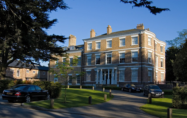 Anlaby House, Anlaby, East Riding of Yorkshire, England This listed building was originally built around 1796 for John Boyes, a Hull merchant. In 1935 it was acquired for use as offices by the former Haltemprice Urban District Council, and later its successor Beverley Borough Council. East Riding of Yorkshire Council sold it in 1999 and it suffered a degree of dereliction before its current conversion into luxury serviced apartments.